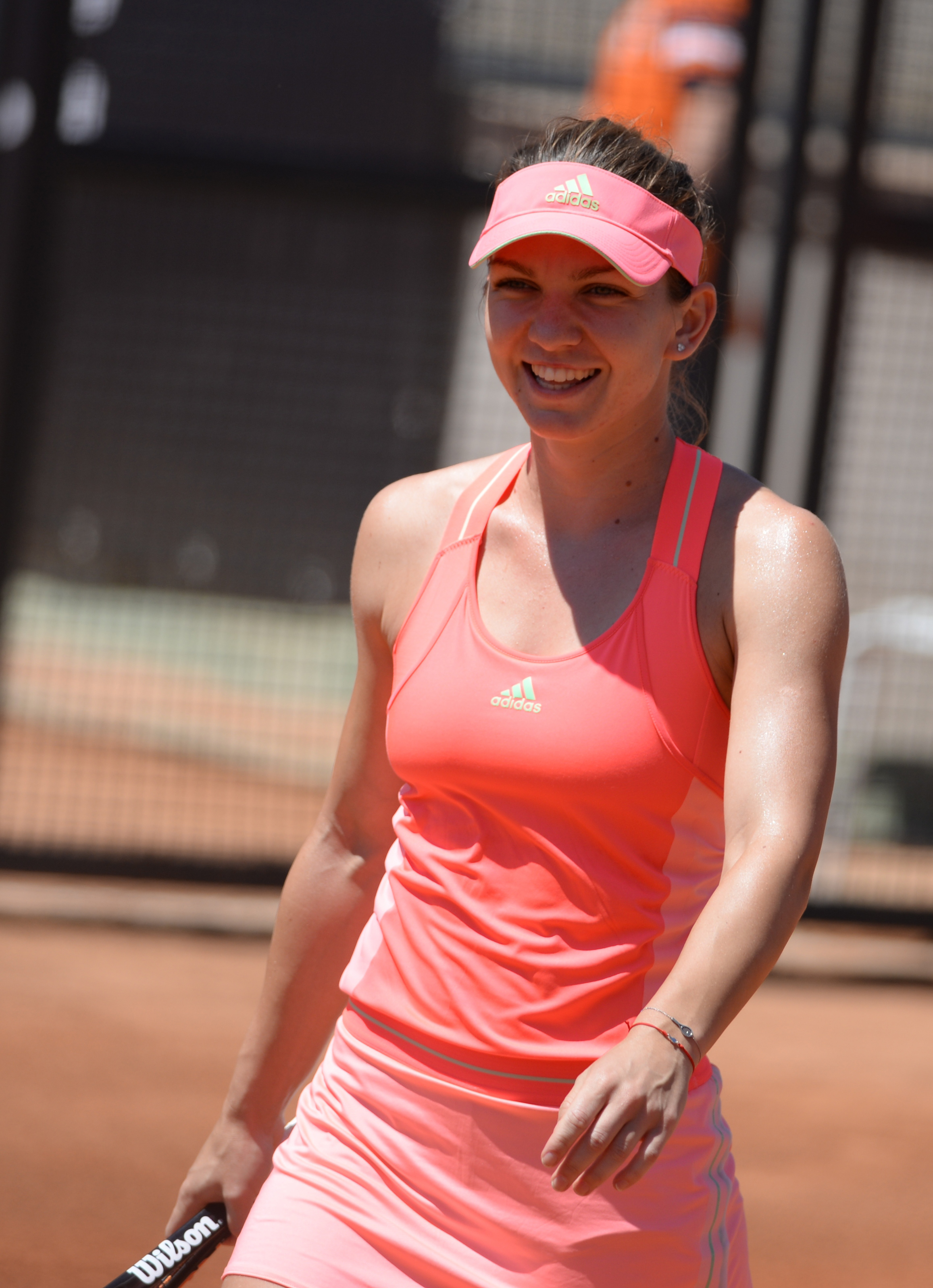 Simona Halep at the 2015 Internazionali BNL d'Italia